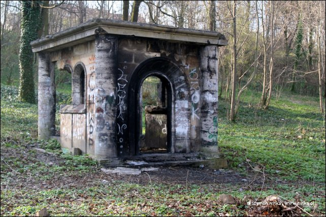 Chelm, Gdansk, Poland.